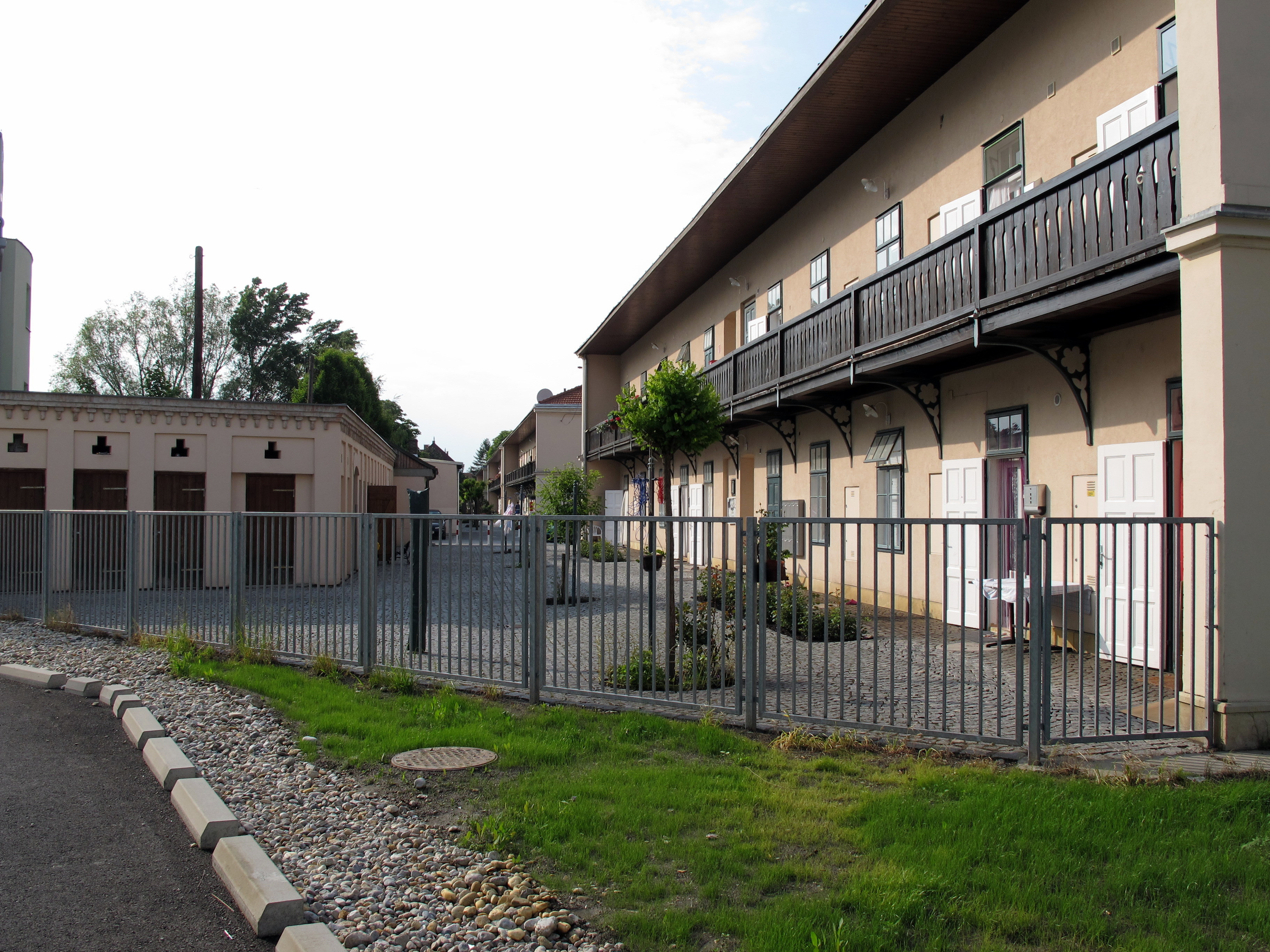 Former working class neighborhood in Marienthal Gramatneusiedl / District Wien-Umgebung / Lower Austria / Austria / EU, where Paul Lazarsfeld's study The unemployed of Marienthal conducted. The apartments were not on a staircase, but from the outside on a balcony (Pawlatschen) available. On the roof there are satellite dishes. On the left are boxes, which were once used as storage for wood or coal.